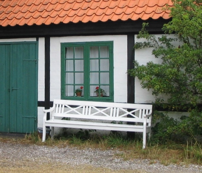 Garden furniture of model "Skagerak" outside Drachmann's house in Skagen